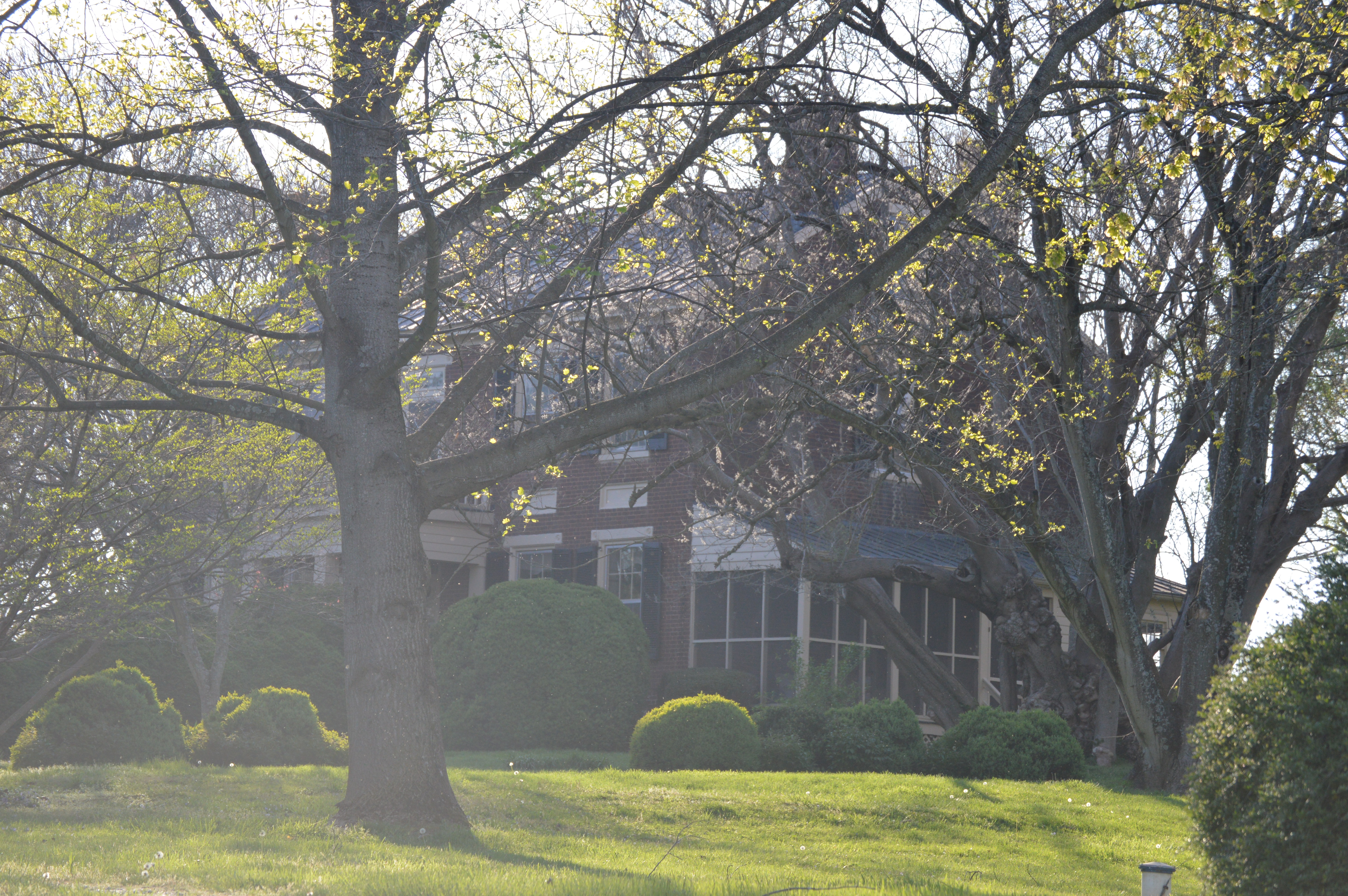 Roadside view of Pleasant View, located on Bellevue Road west of Forest in Bedford County, Virginia, United States. Built in 1840, it is listed on the National Register of Historic Places.